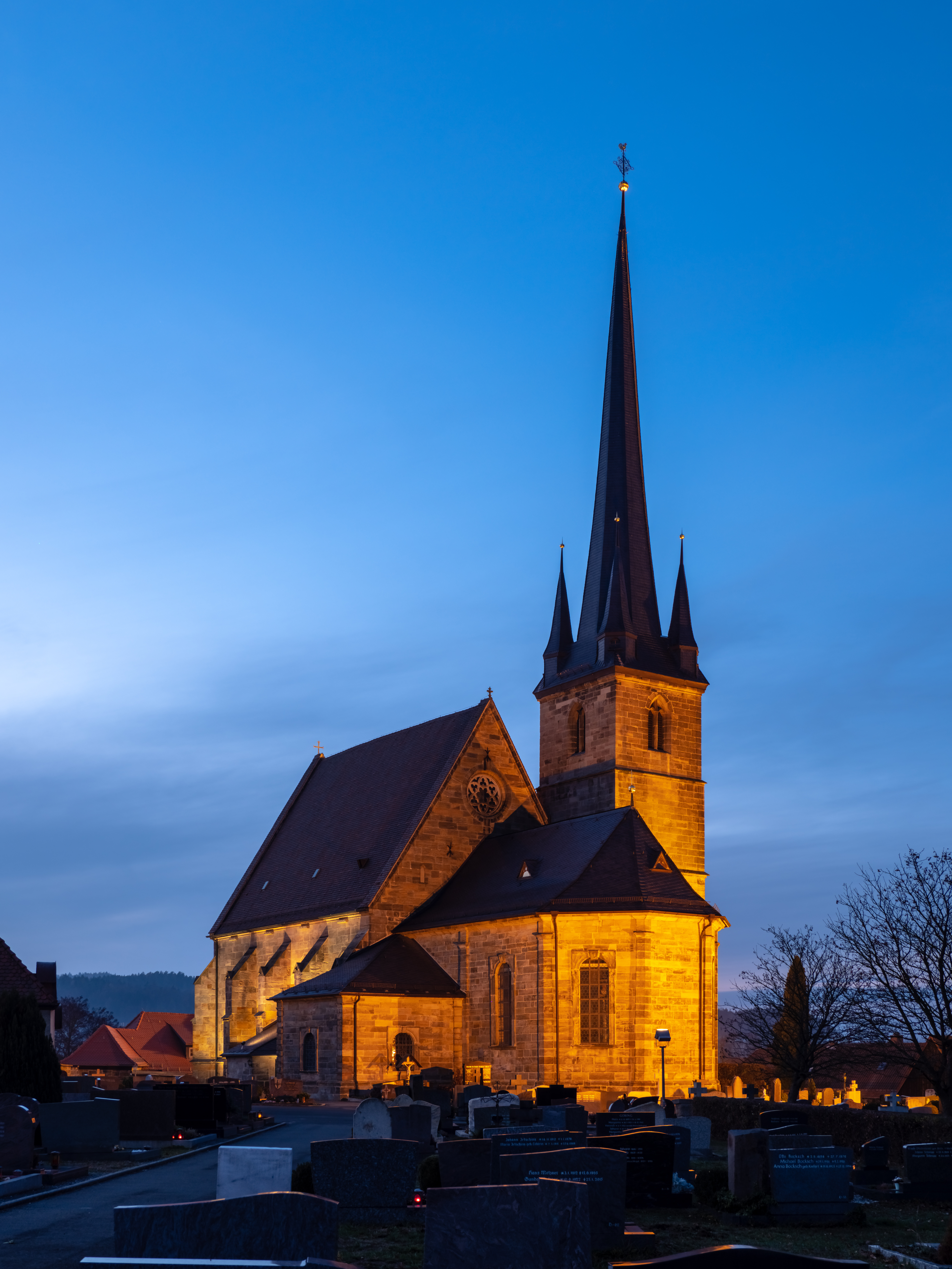 Catholic Parish Church of the Nativity of the Virgin Mary in Altenkunstadt